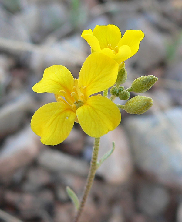 Lesquerella tenella off Northshore Drive in upper Bitter Spring Valley near the Bowl of Fire, Lake Mead National Recreation Area, southern Nevada